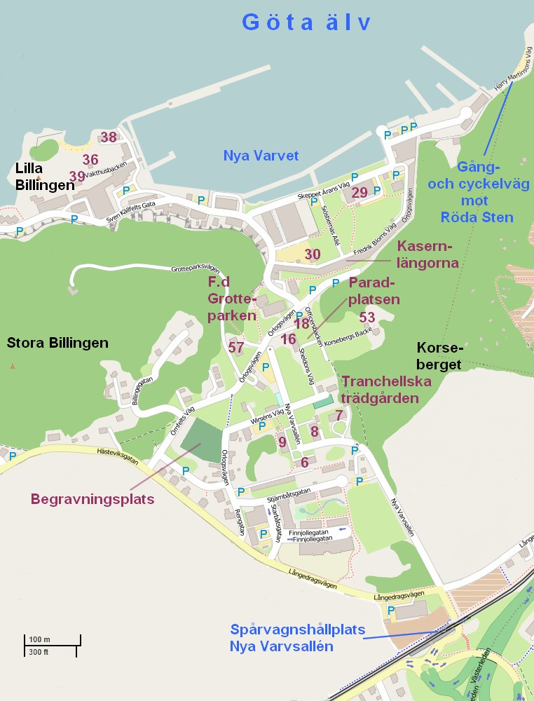 Map showing the central part of the former naval shipyard Nya Varvet, Gothenburg, Sweden.